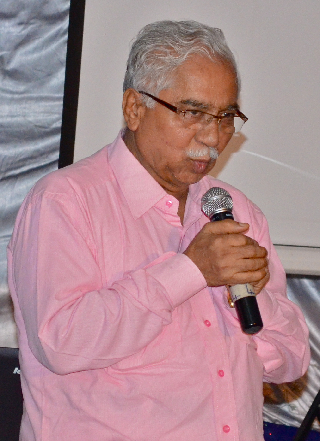 Chandrashekhara Kambara is a prominent poet, playwriter, folklorist, film director in Kannada language and the founder-vice-chancellor of Kannada University in Hampi.